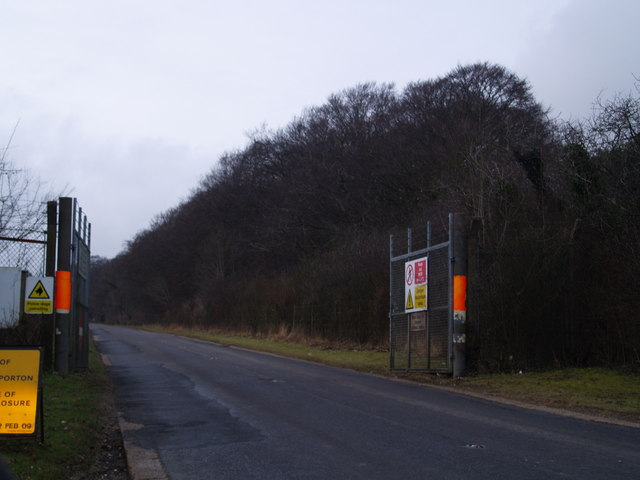 Gate leading on to Porton Down